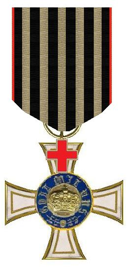 Cross of the Order of the Crown Prussia III Class 1871 - 1918